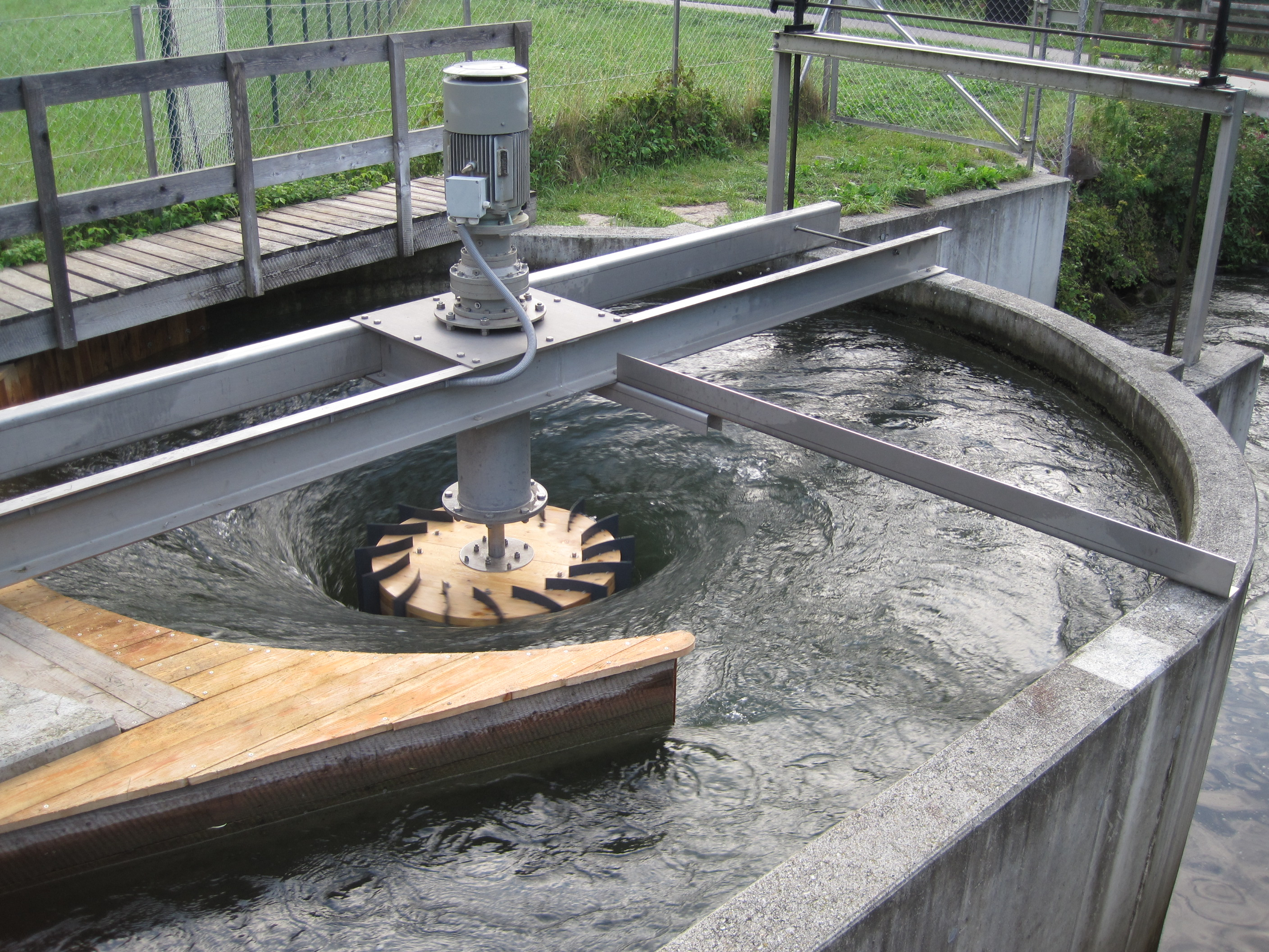 Gravitation Water Vortex Power Plant with Zotlöterer turbine to generate green electricity, aquatic plants, microbe and fishes.